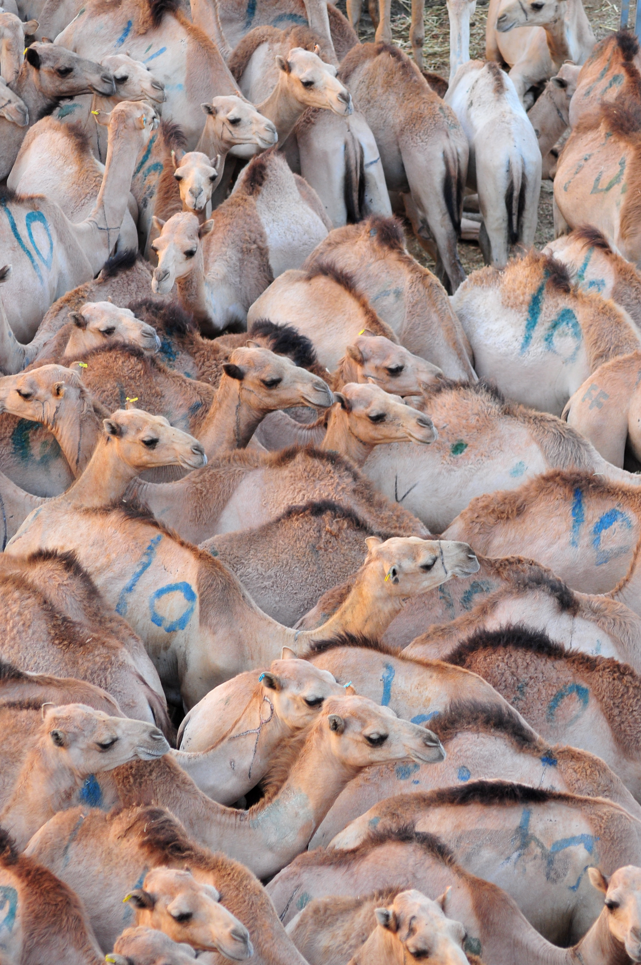 Dromedars geht numbers before they sacrifieced for Eid ul-adha